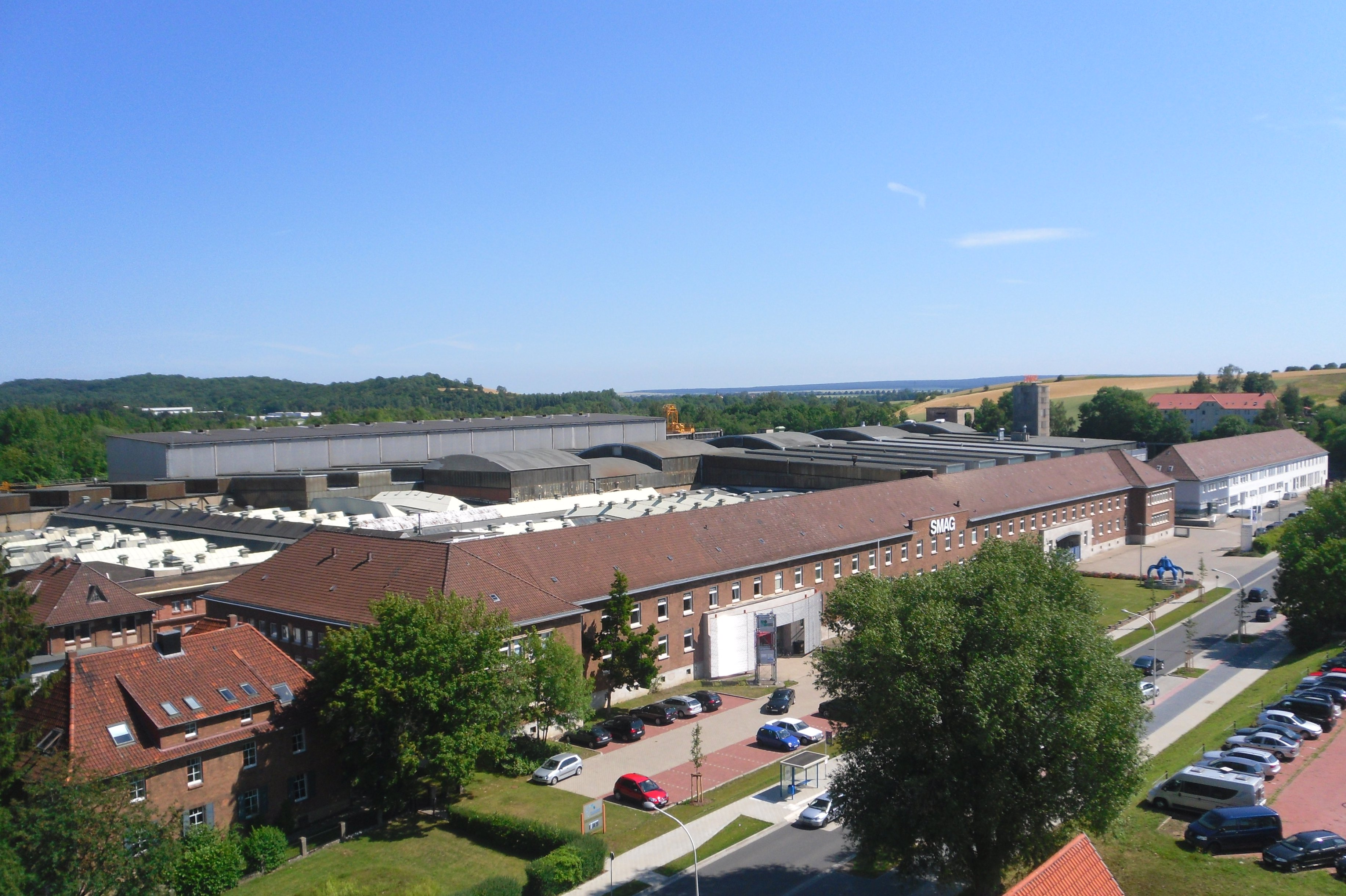 The premises of Salzgitter Maschinenbau AG an der Windmühlenbergstraße in Salzgitter-Bad